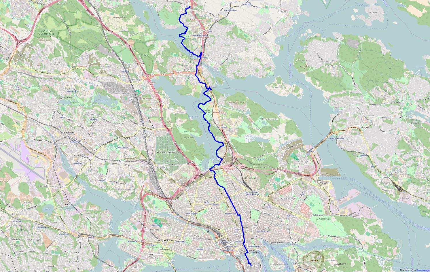 The Mörbystråket hiking trail in Stockholm, Sweden.